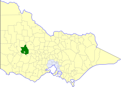 Location of the former Shire of Stawell within Victoria.